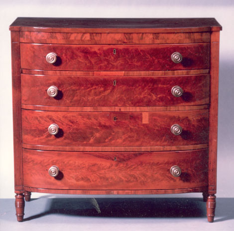 A veneer repair patch, located on the front of the third drawer, has faded from light. This extreme fading is typical of areas where aniline stains have been applied